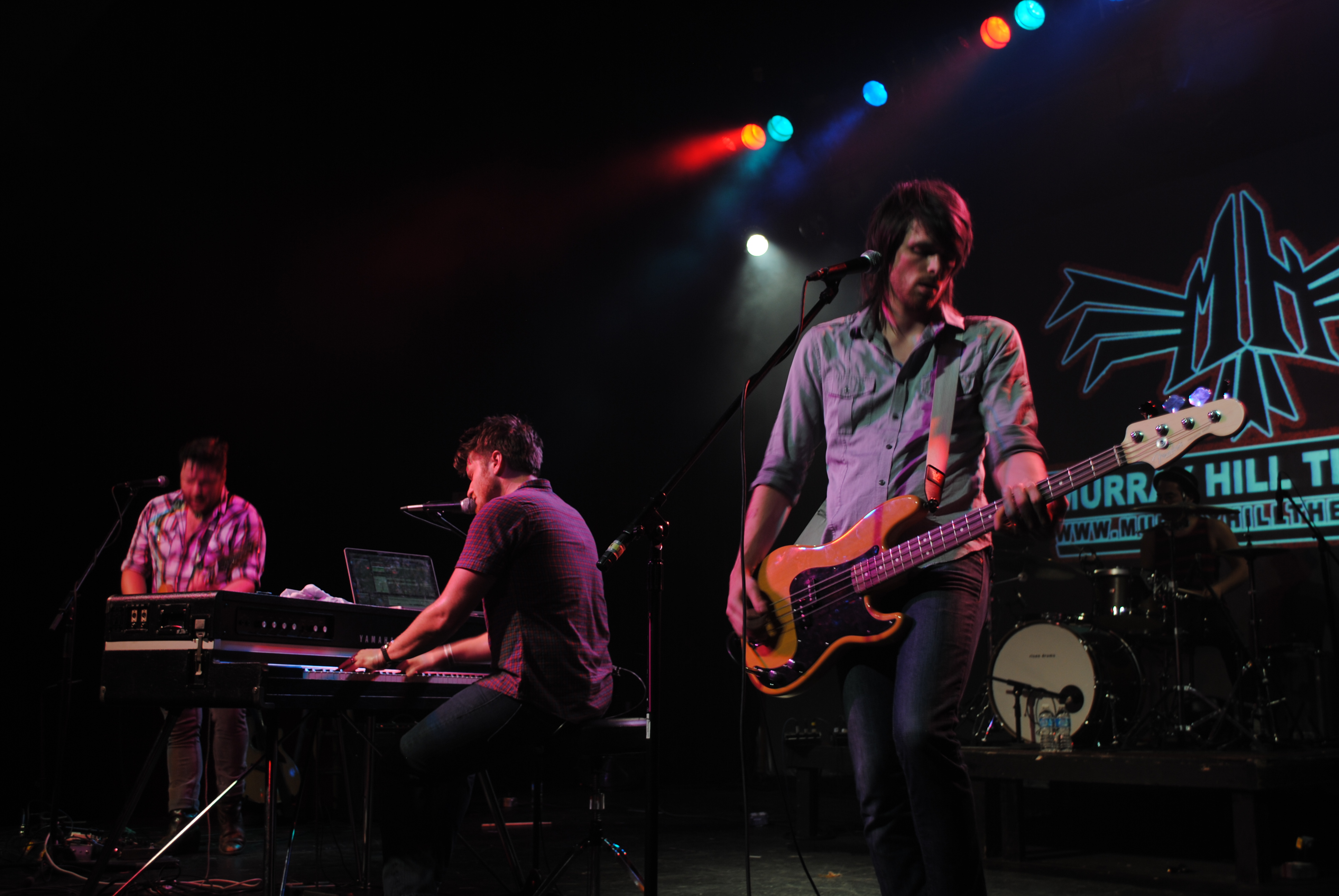 Seabird performing at the Murray Hill Theatre.